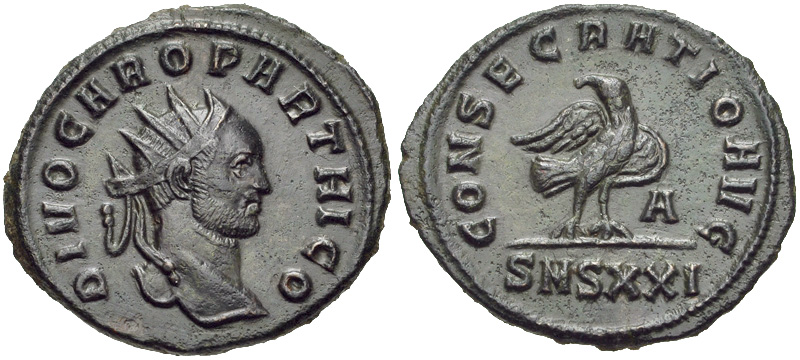 Divus Carus. Died AD 283. Antoninianus (21mm, 3.63 g, 7h). Siscia mint, 1st officina. 6th emission under Carinus, AD 284. DIVO CARO PARTHICO Radiate head right CONSECRATIO AVG Eagle standing right, head left; A//SMSXXI. RIC V 112; Pink VI/2, p. 48. VF, dark green patina, a few tool marks, some porosity.